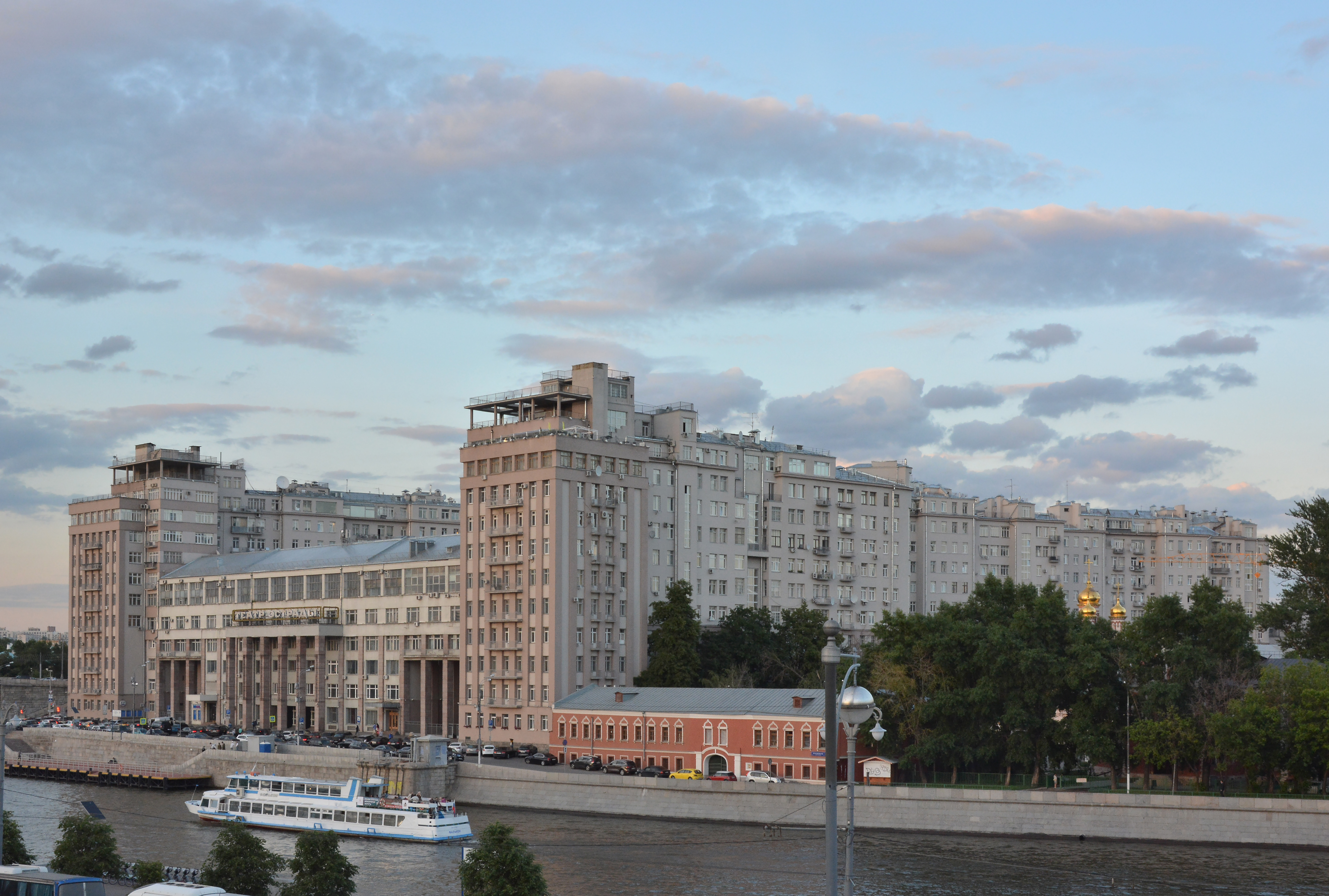 Moscow. The House on the Embankment. View from the Patriarshy bridge in the evening.